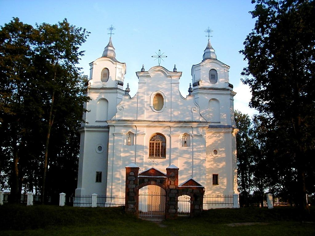 Auleja Mary Magdalene Roman Catholic Church, built in 1709Latviešu: Aulejas Sv. Marijas Madaļas Romas katoļu baznīca, celta 1709. g.